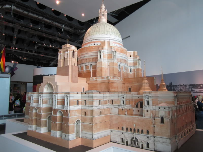 Model of Edward Luyten's original design for the Liverpool Metropolitan Cathedral at the Museum of Liverpool, England.